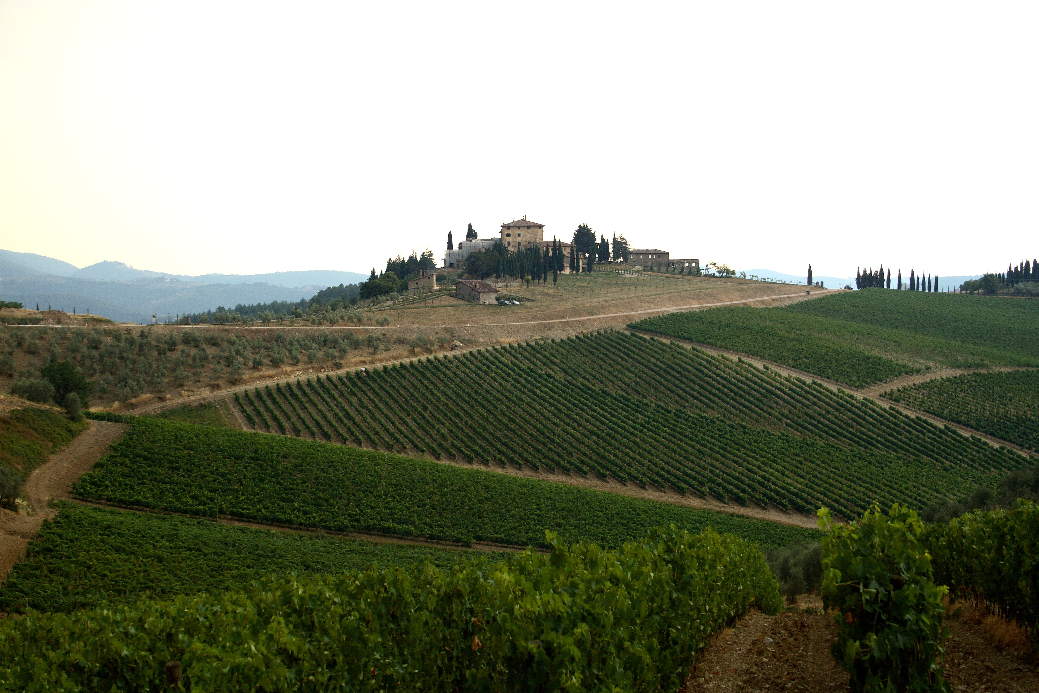 Tuscany, Italian wine region of Chianti